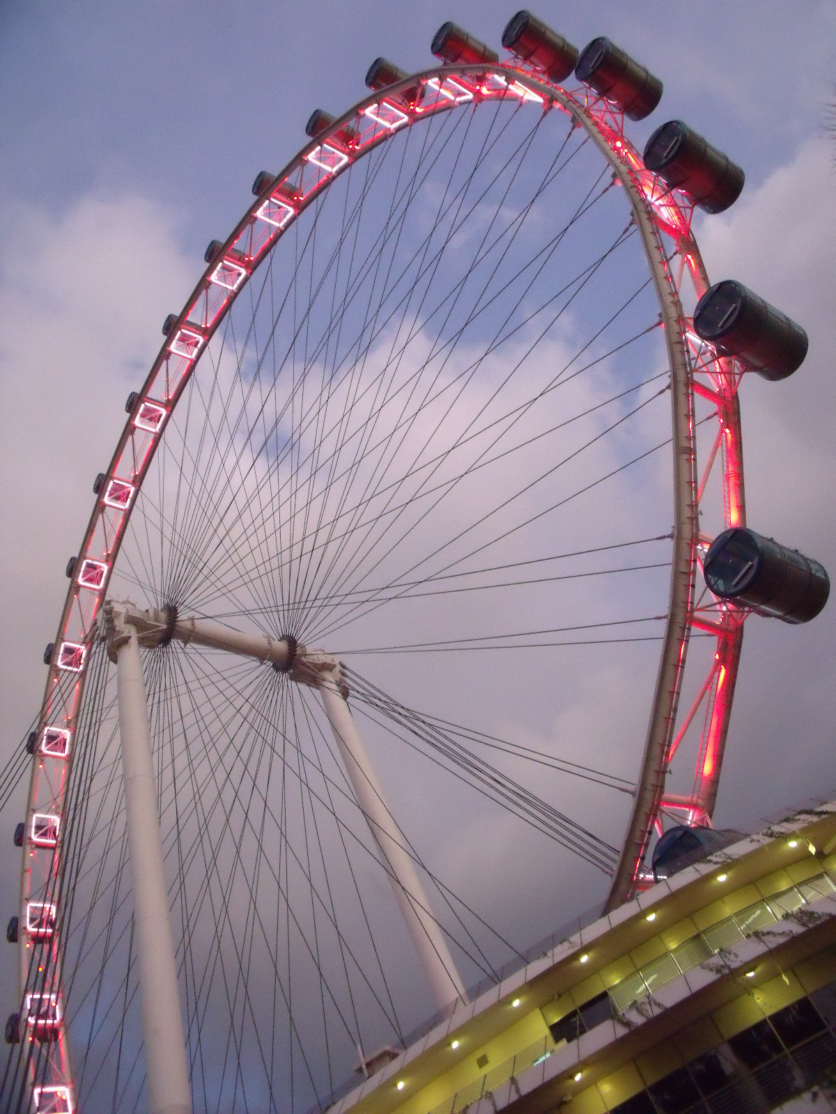 The Singapore Flyer at Dusk